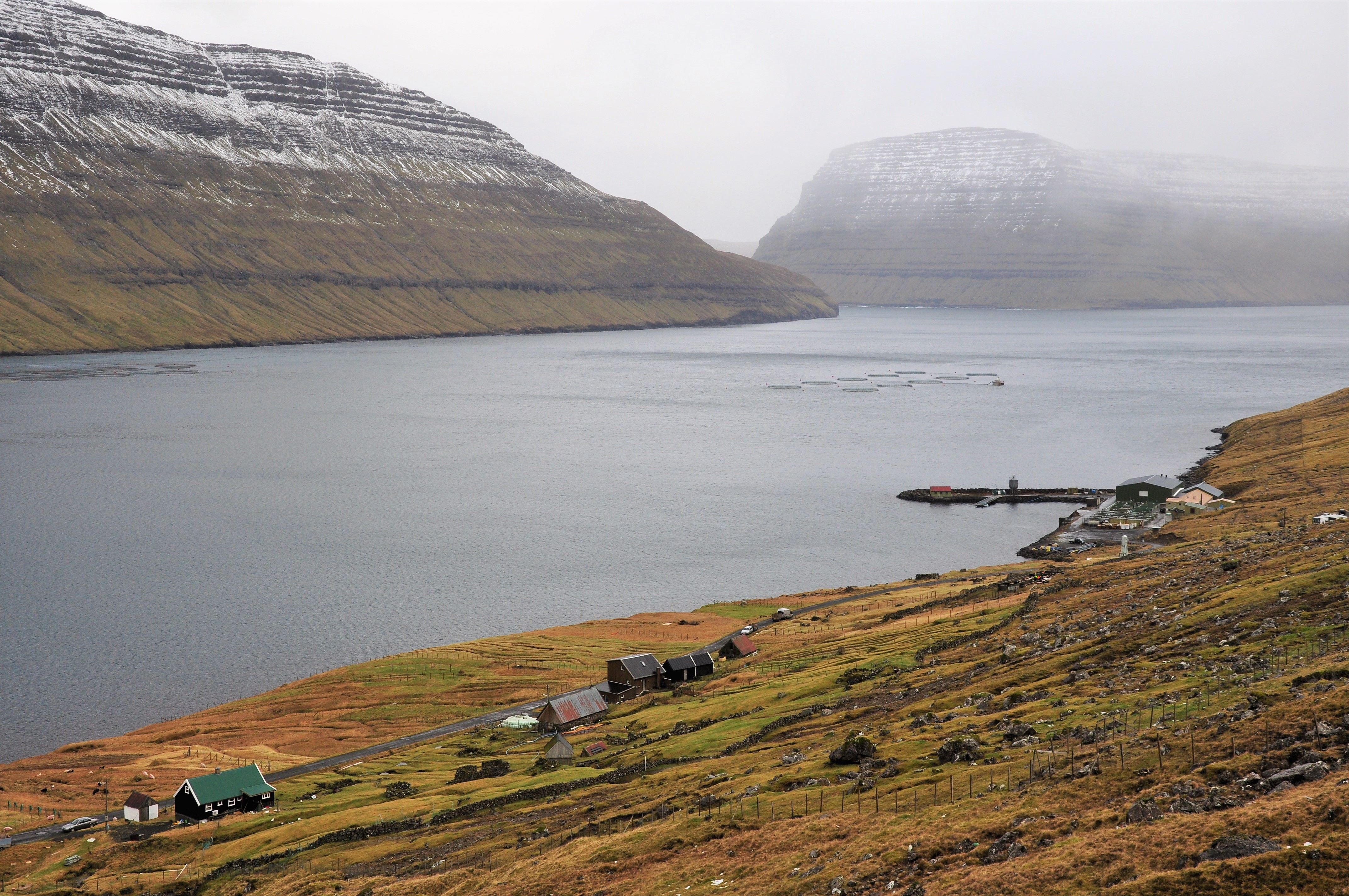 The hamlet of Norđtoftir on the island Borđoy, Faroe Islands. In the distance the island Svinoy.